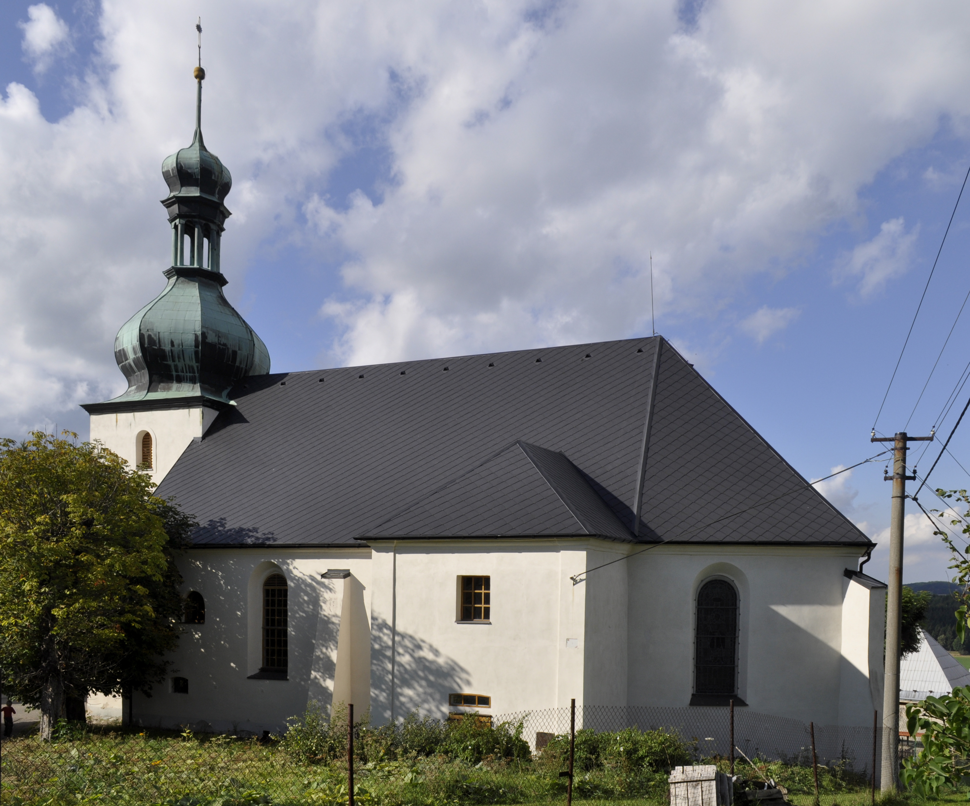 St. Catherine church in Hora Svaté Kateřiny